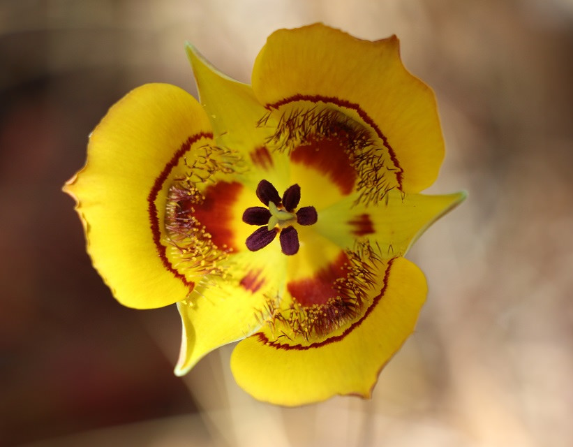 Club-haired Calochortus (Calochortus clavatus ssp. clavatus), Eagle Rock Trail, SLO. Photographer: Margaret Watson.